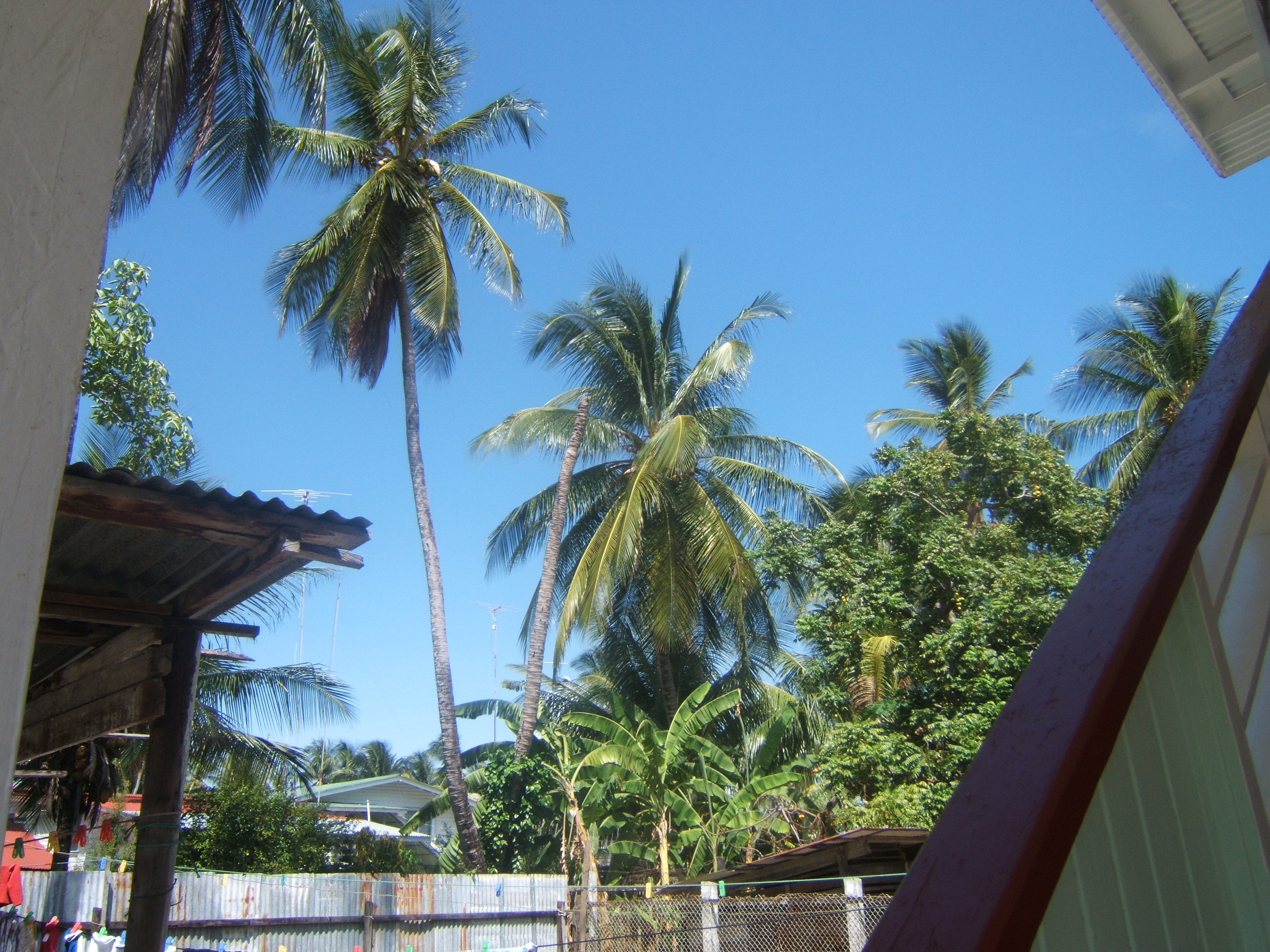 I took this picture of a group of coconut trees in my Grandmother's Guyana house backyard because I loved how beautiful the trees looked. I'm interested in Coconut & Palm trees, this explains why I took this picture on my vacation to Clonbrook. Enjoy!